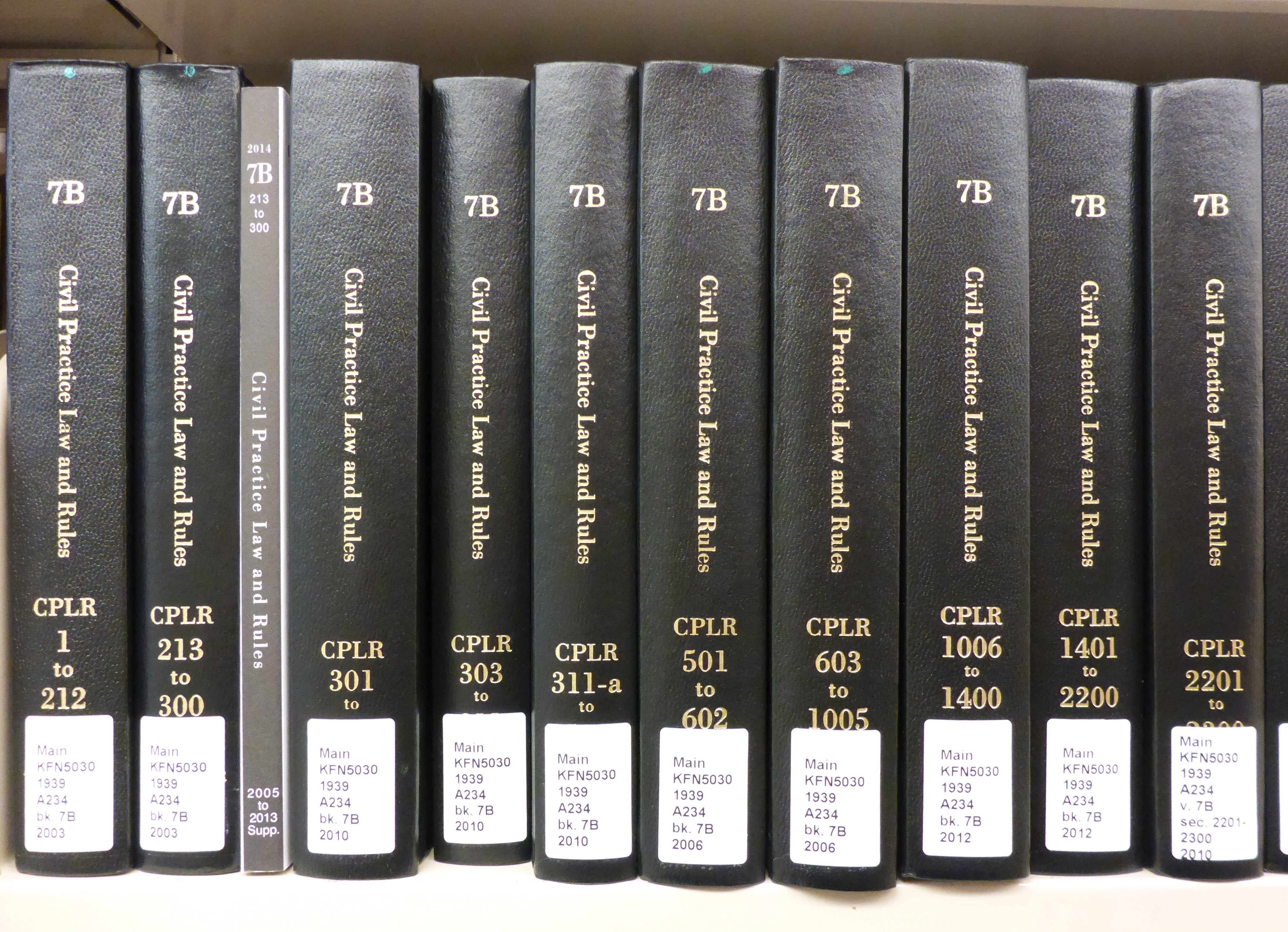 Volumes of the McKinney's annotated version of the Consolidated Laws of New York (specifically the Civil Practice Law and Rules). Photographed by user Coolcaesar at a law library in Los Angeles, California on October 11, 2014.